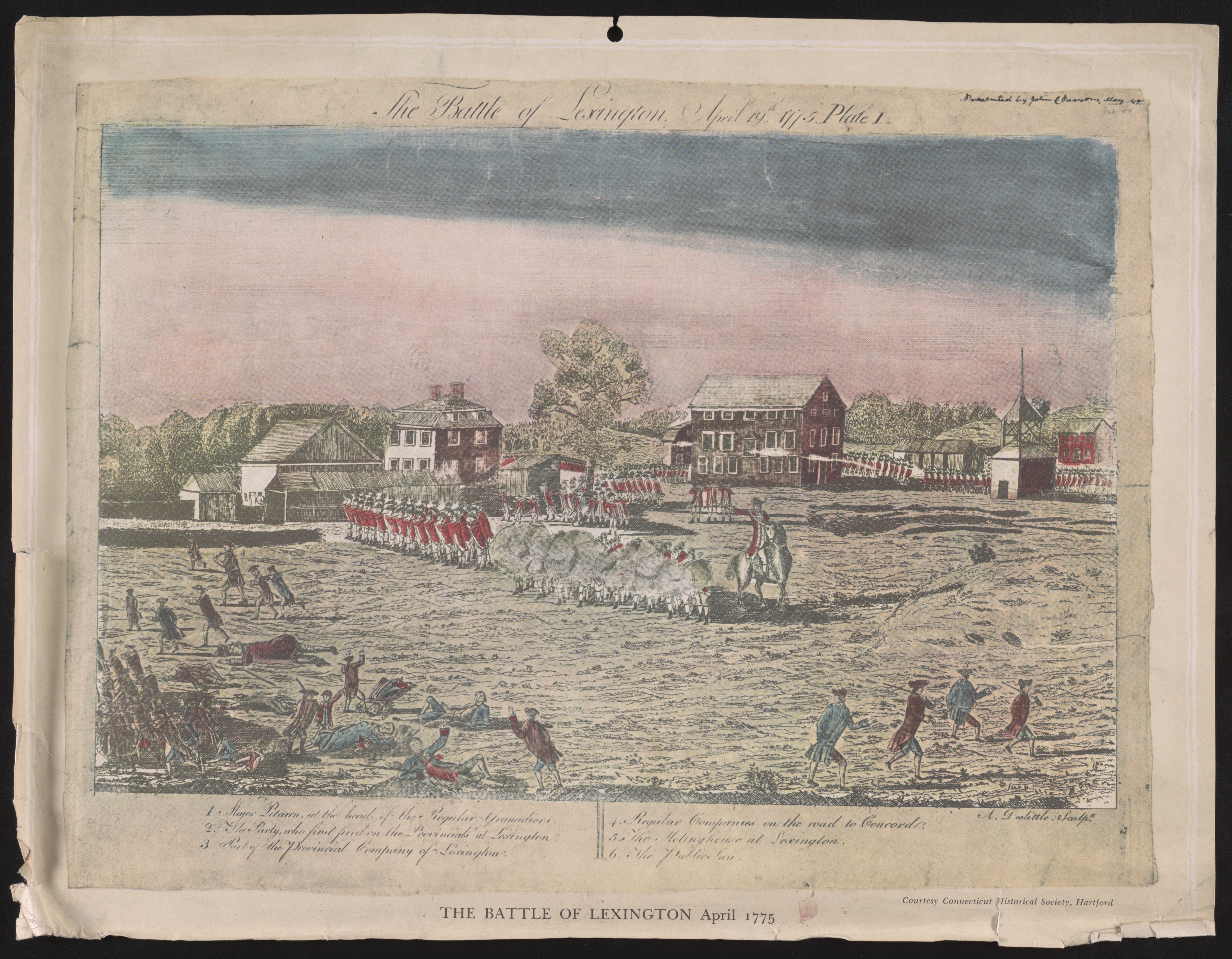 Cropped version of image at right. The battle of Lexington, April 19th. 1775. Plate I." In: "The Doolittle engravings of the battles of Lexington and Concord in 1775."